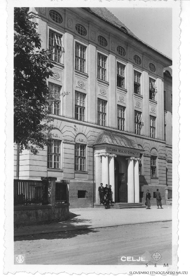 Postcard of Celje